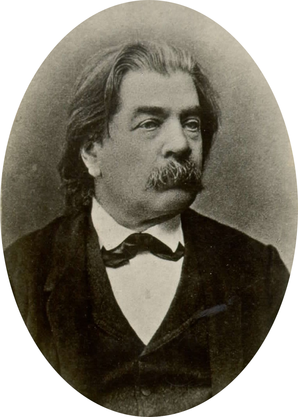 Fran Miklošič (1843-1891)